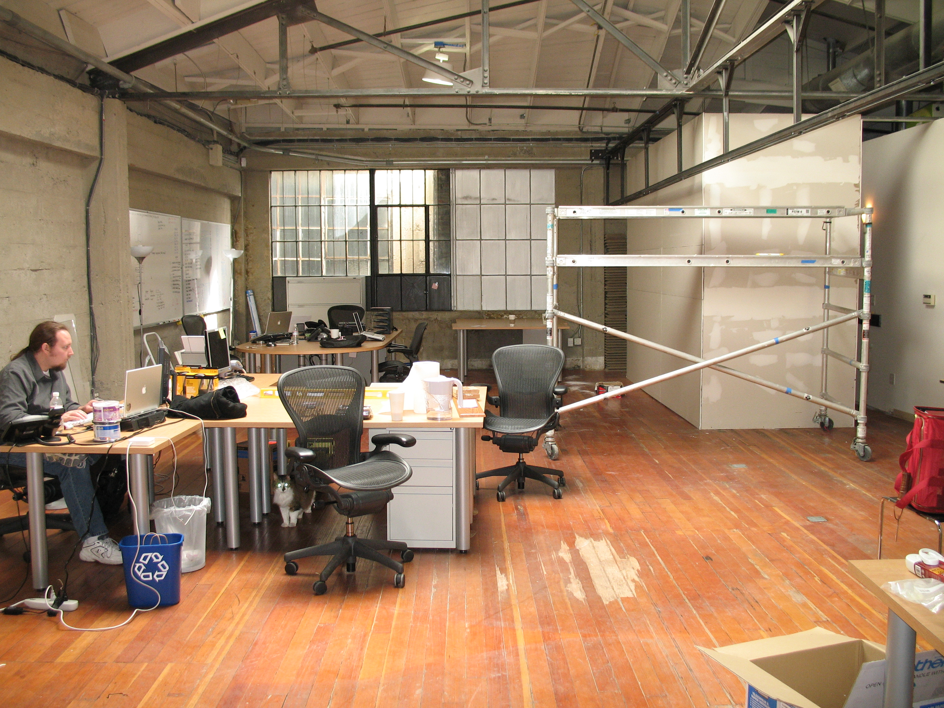 Wikimedia Foundation office